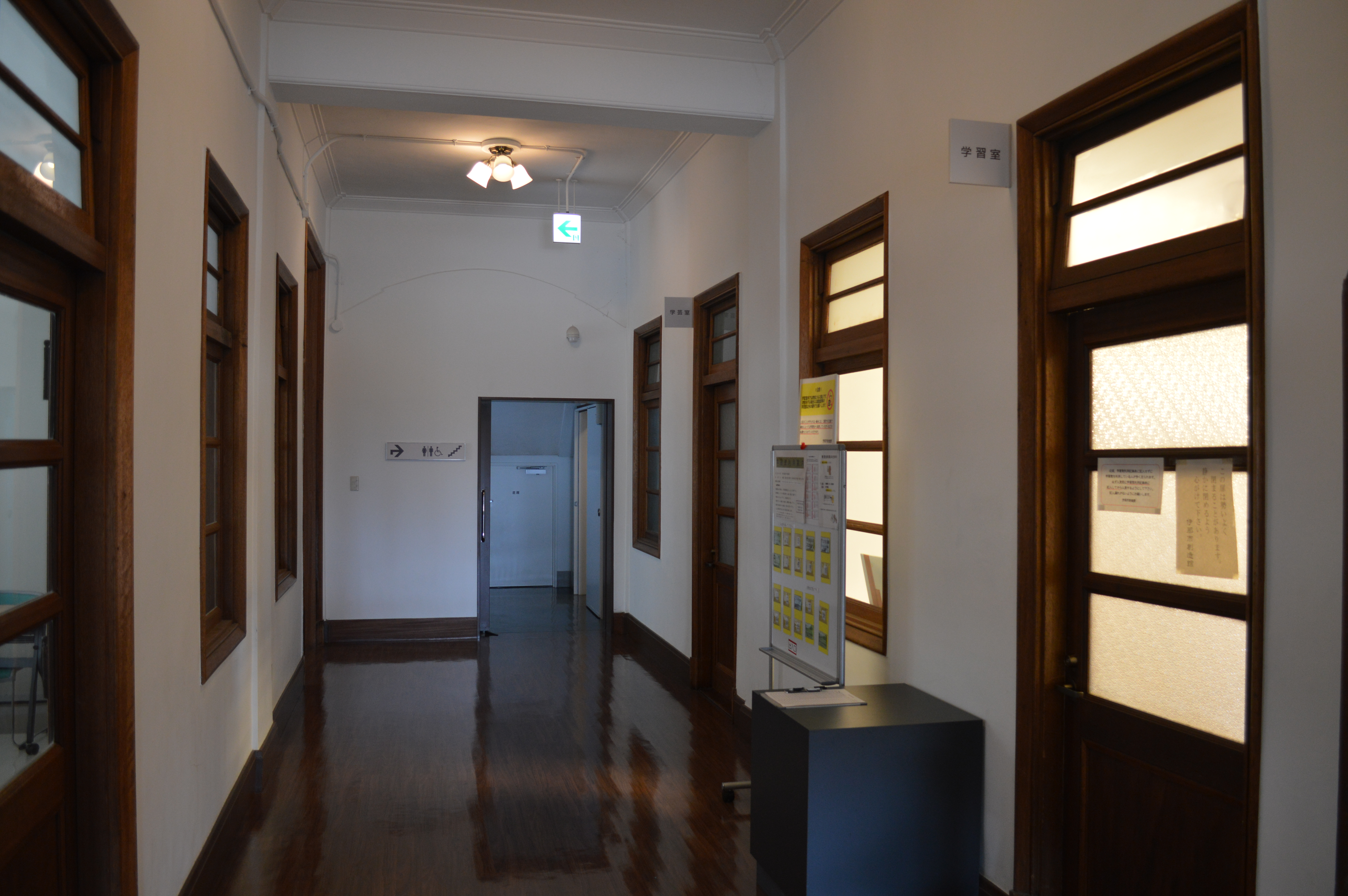 Ina city Souzoukan is a public facility in Ina city, Nagano prefecture, Japan.